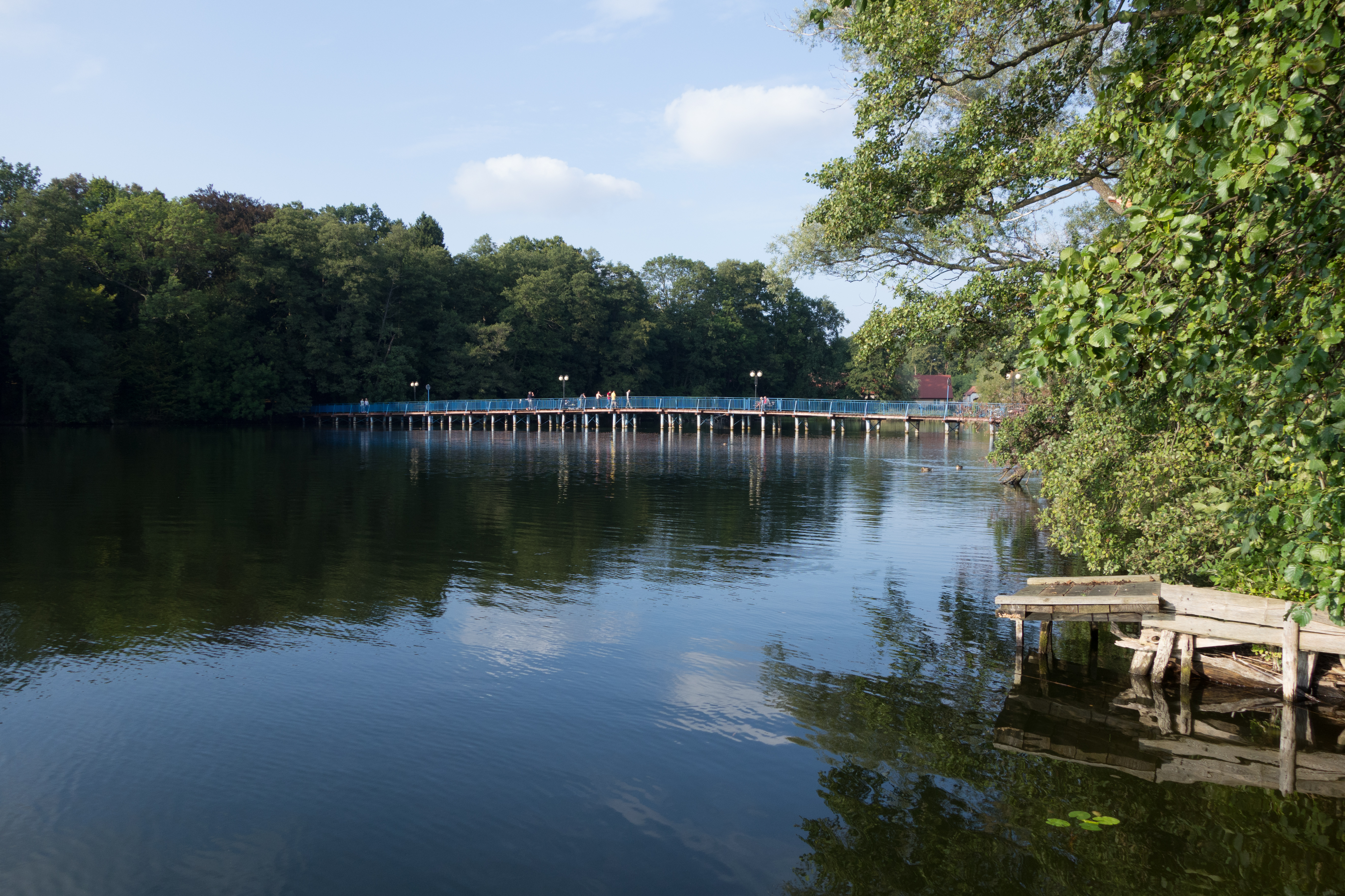 Michalina Wislocka Love Park, Lubniewice (Poland)